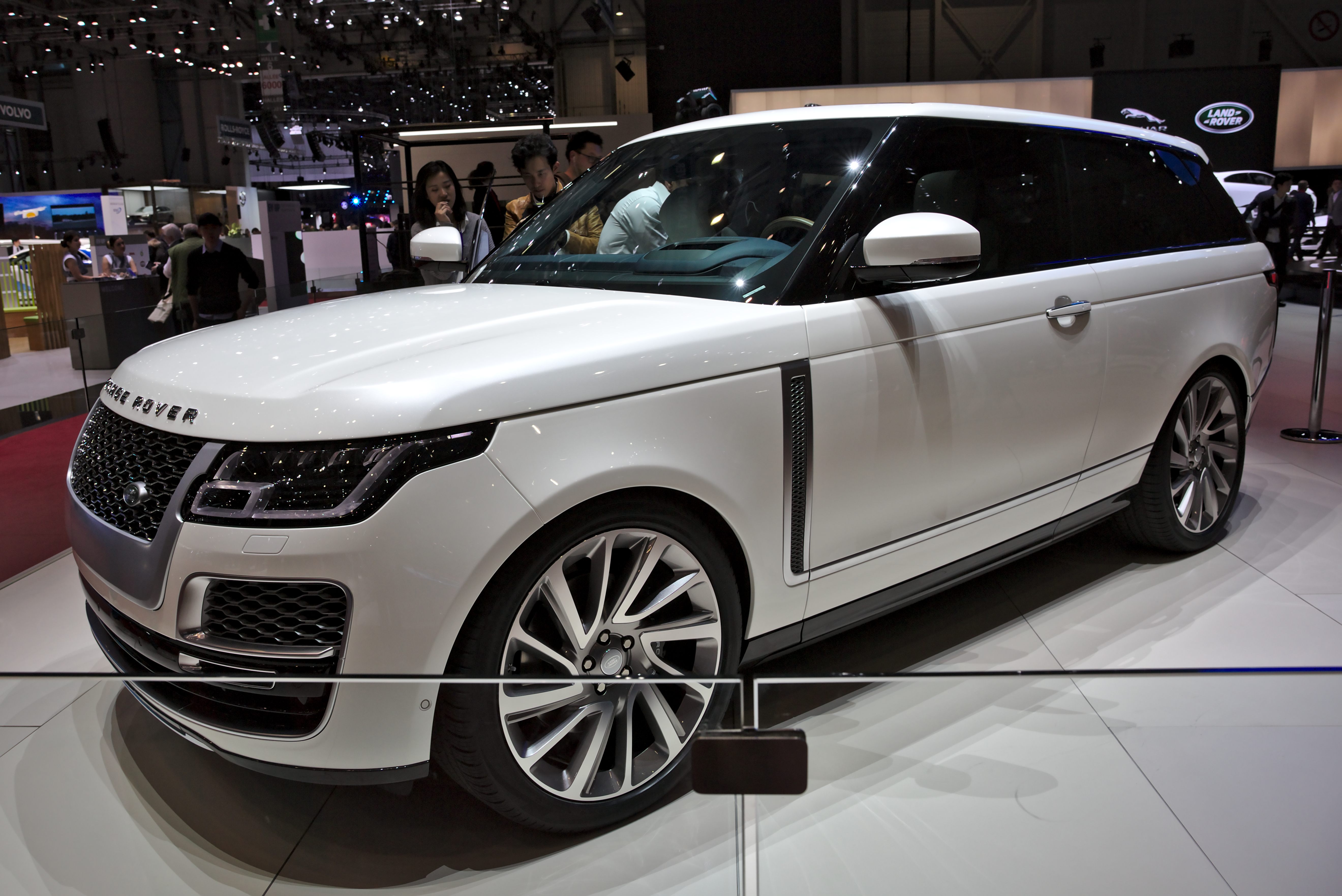 Range Rover SV Coupe at Geneva Motorshow 2018